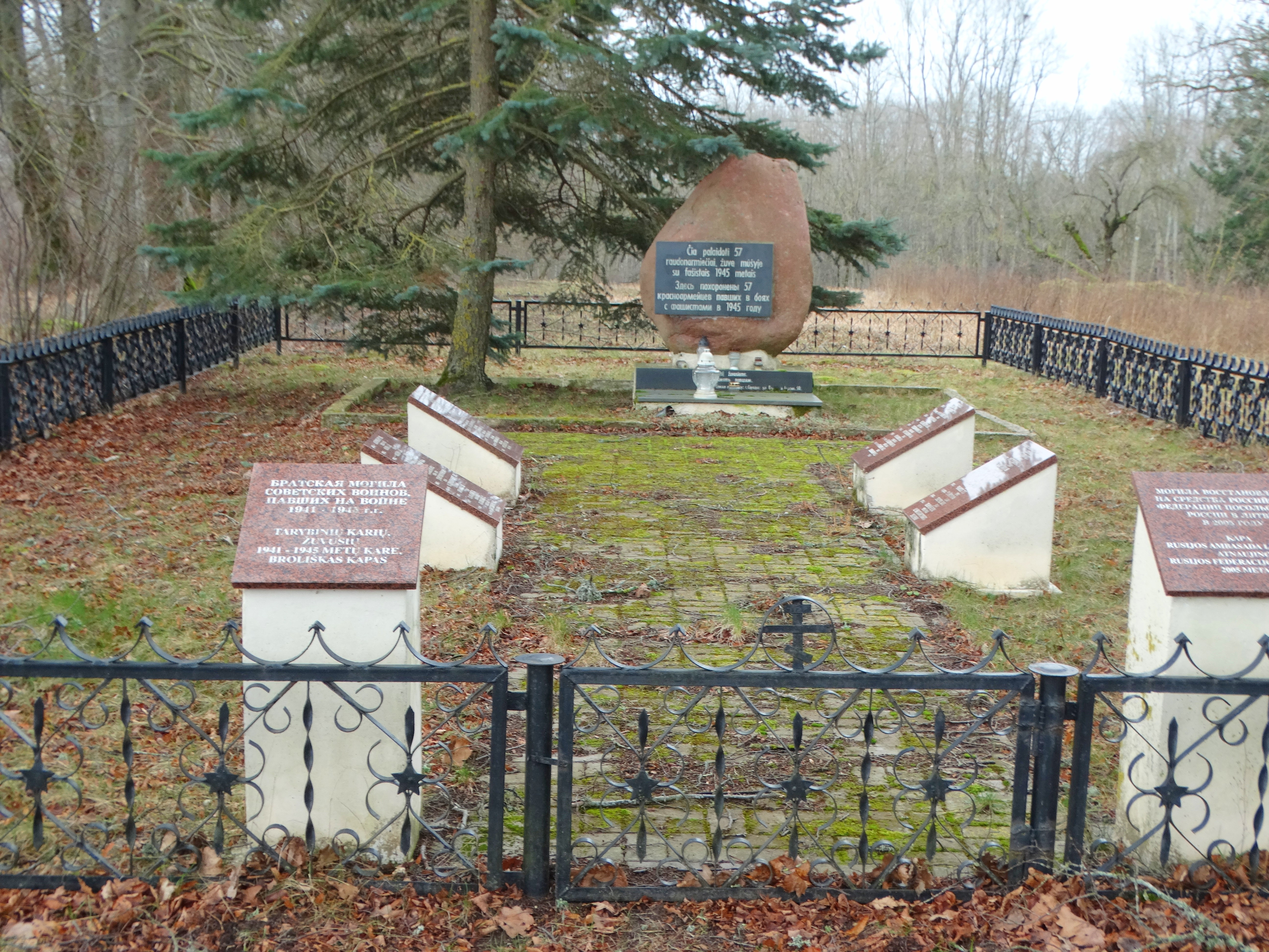 Former Šarkė manor, WWII memorial, Daujotai, Skuodas District, Lithuania